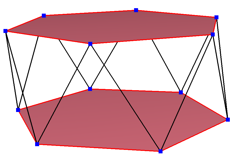 Hexagonal antiprism, side faces hidden